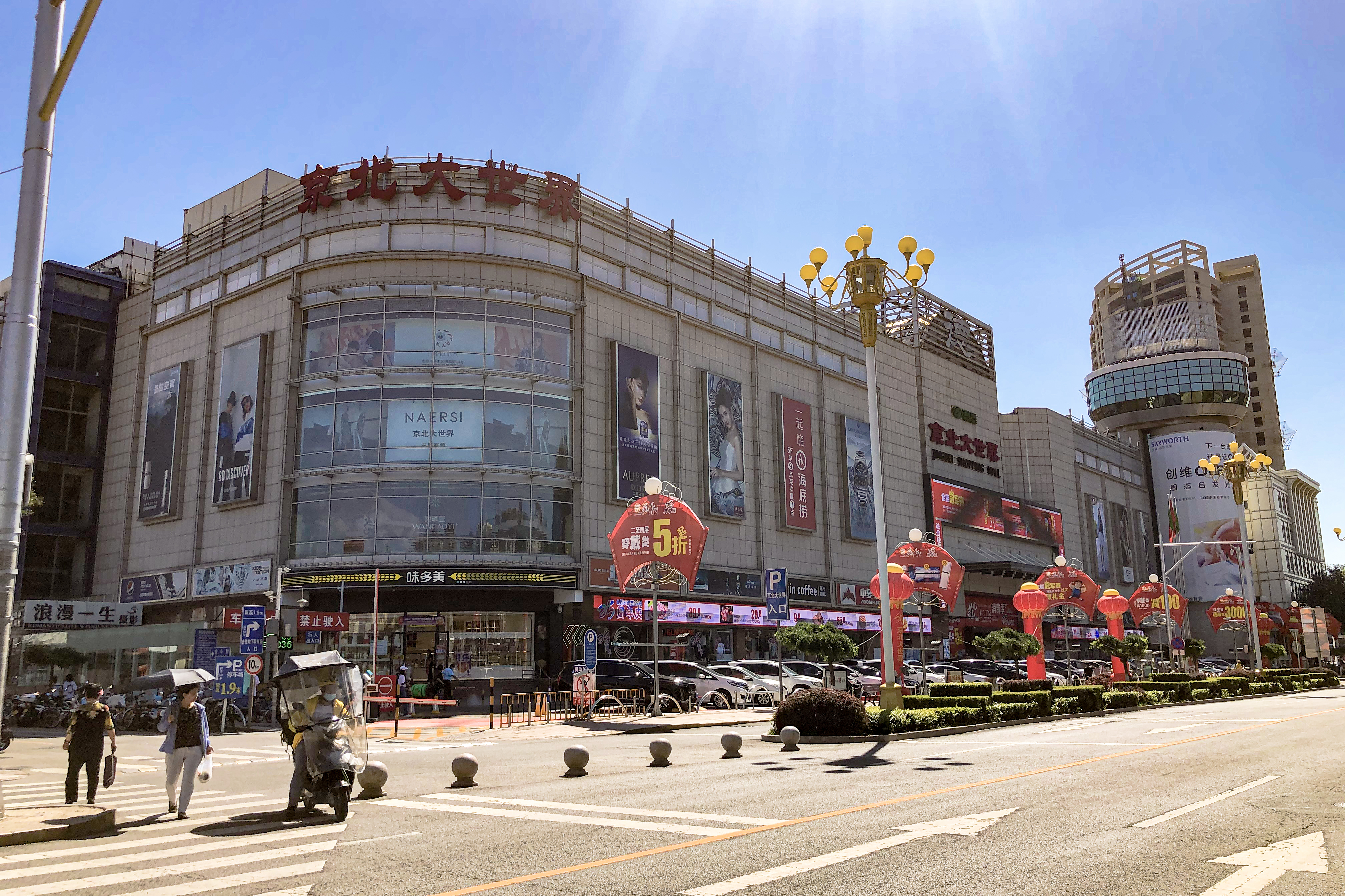 Opened on 18 August 1995, just before the World Conference on Women.